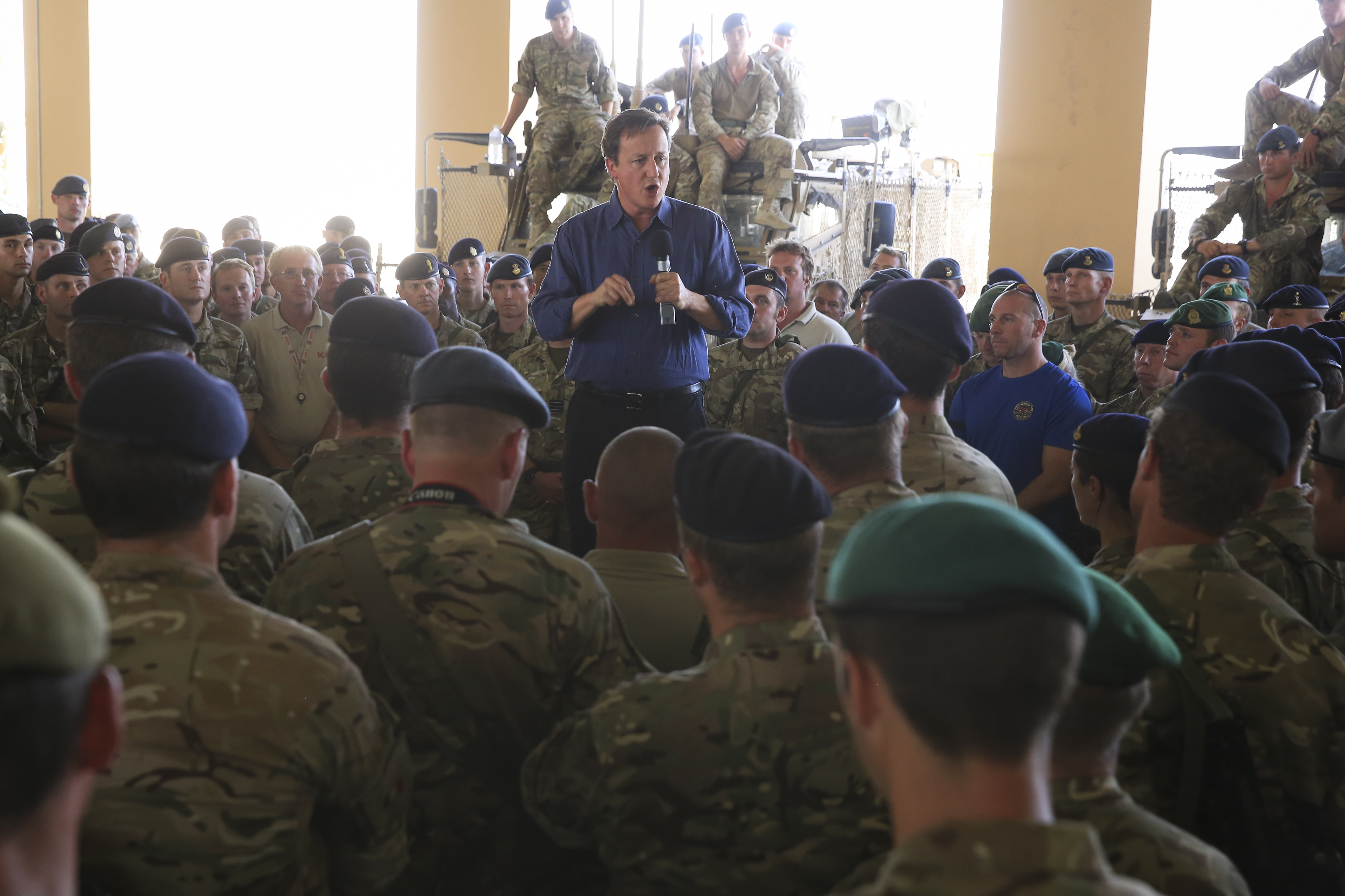 U.K. Prime Minister David Cameron speaks to British troops aboard Camp Bastion, Helmand province, Afghanistan, Oct. 3, 2014. Cameron spoke with British troops and met with International Security Assistance Force and Afghan National Army leaders in charge of the region. (Official U.S. Marine Corps photo by Cpl. Darien J. Bjorndal, Marine Expeditionary Brigade Afghanistan/ Released)